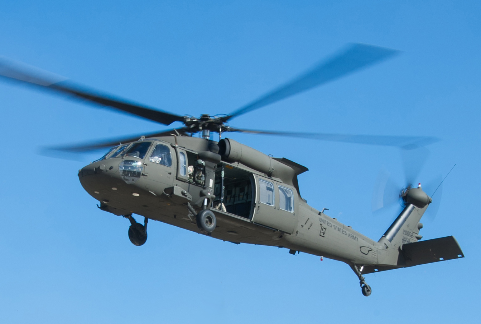 A UH-60M Black Hawk helicopter from the 4th Assault Helicopter Battalion, 3rd Aviation Regiment â€œBrawlers,â€ 3rd Combat Aviation Brigade, 3rd Infantry Division, sling loads a light artillery piece as Soldiers from the 3rd Battalion, 15th Infantry Regiment â€œChina,â€ 4th Infantry Brigade Combat Team, 3rd ID, rush to get out of the way, here Dec. 1. The Brawlers are operating in support of the 3-15th INâ€™s training exercise, China Focus II. (U.S. Army Photo by Staff Sgt. Richard Wrigley, Public Affairs NCOIC, 2nd ABCT, 3ID)